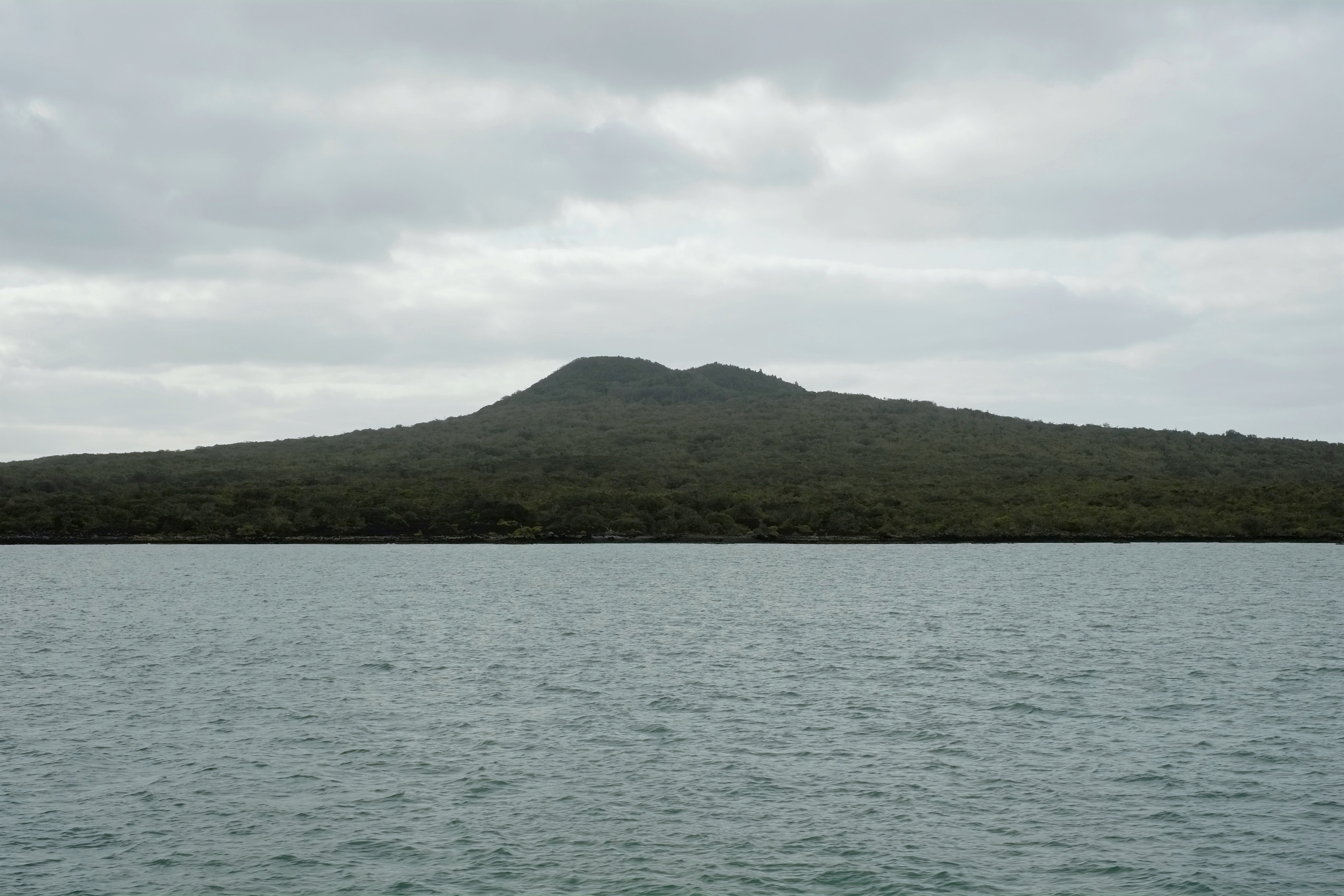 Rangitoto from ferry